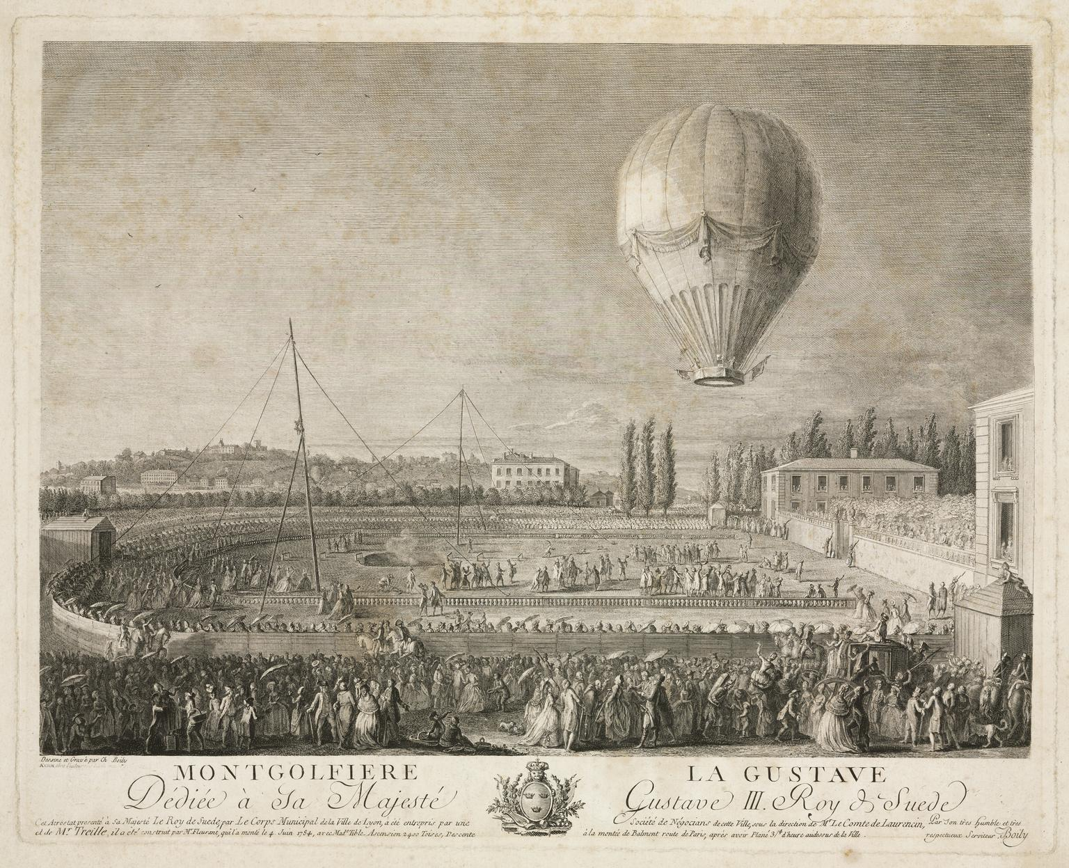 print, engraving, Montgolfiere La Gustave, by Charles Boily after his own design with four lines of text in French, published Lyons [1784]. Image 31x43cm, platemark 36x45cm, sheet 41.5x54cm. Dedicated to King Gustave III of Sweden by the City of Lyon. The first balloon flight by a woman, Madame Thible, an actress, and her friend M Fleurant, at Lyons 4 June 1784